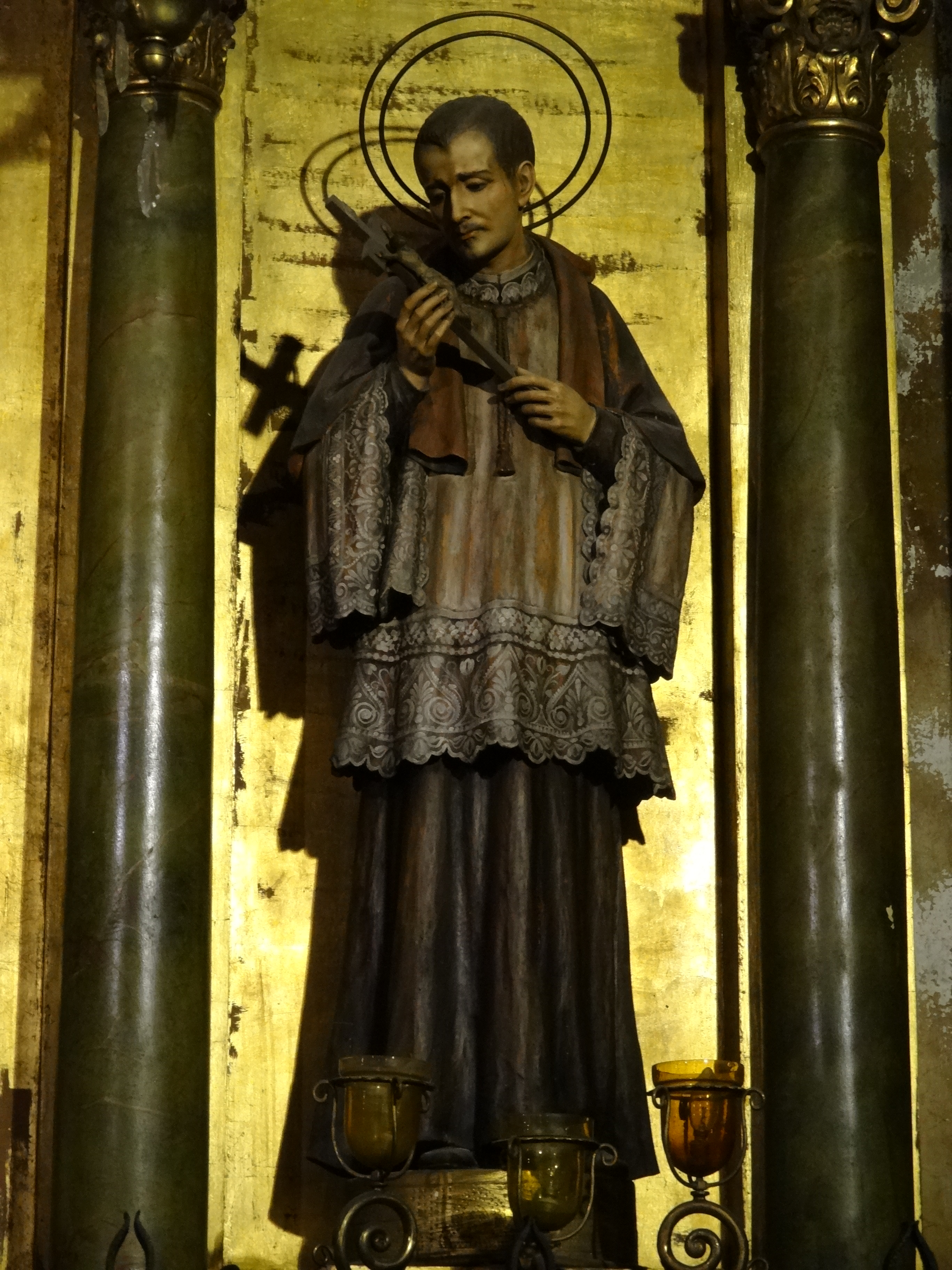 Statue in Basílica de la Mercè, Barcelona